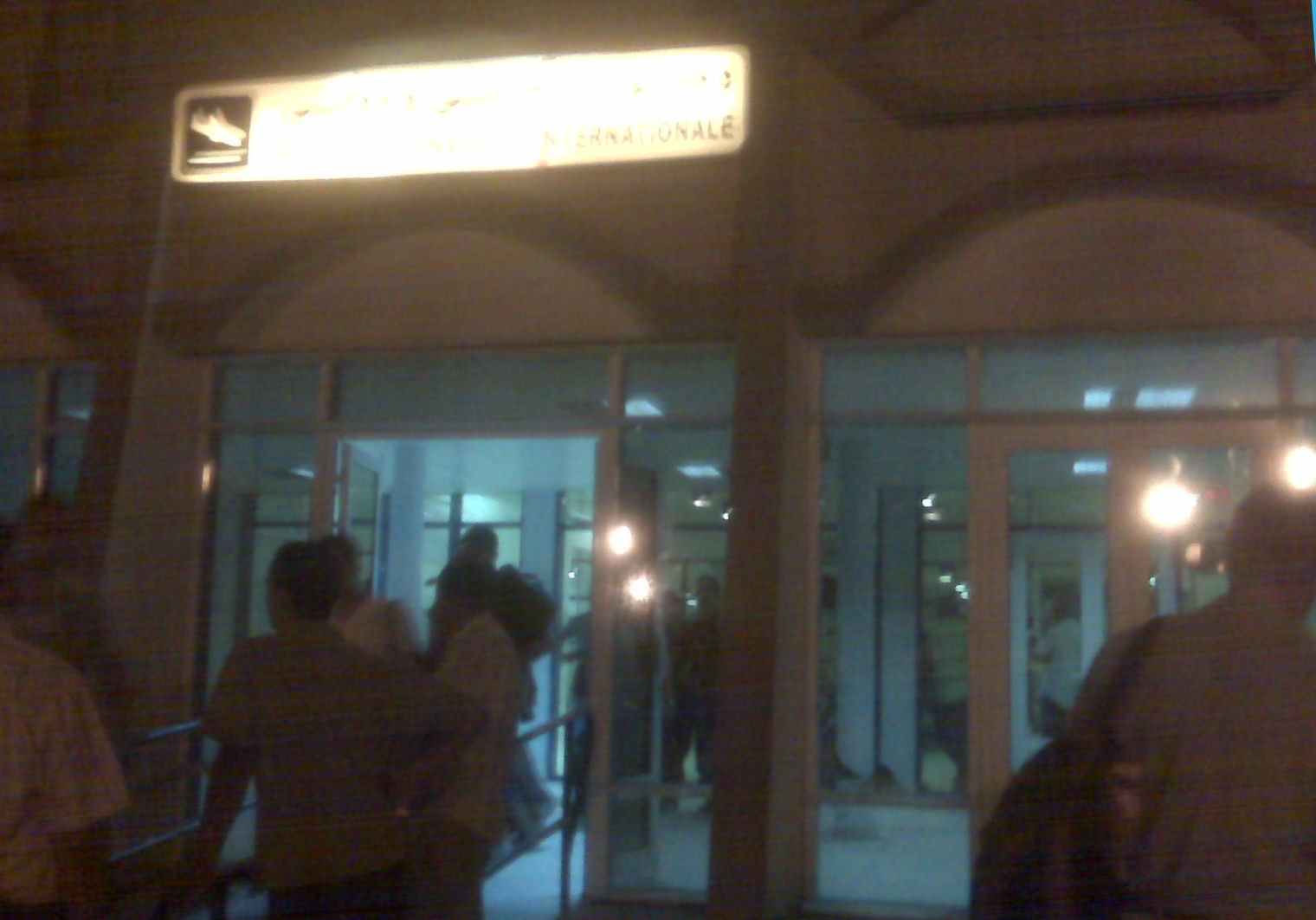 People arriving on late at night on the airport of Hassi Messaoud in the Algerian desert.